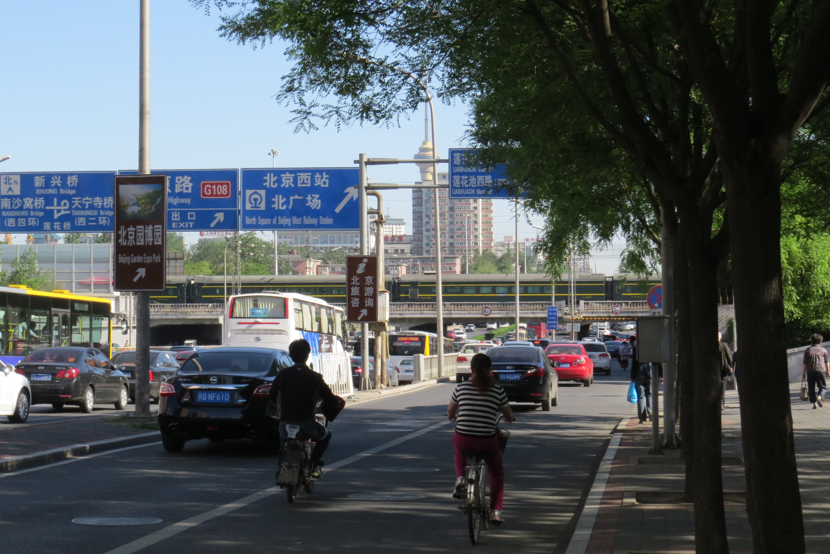 Z22 arriving from Lhasa.